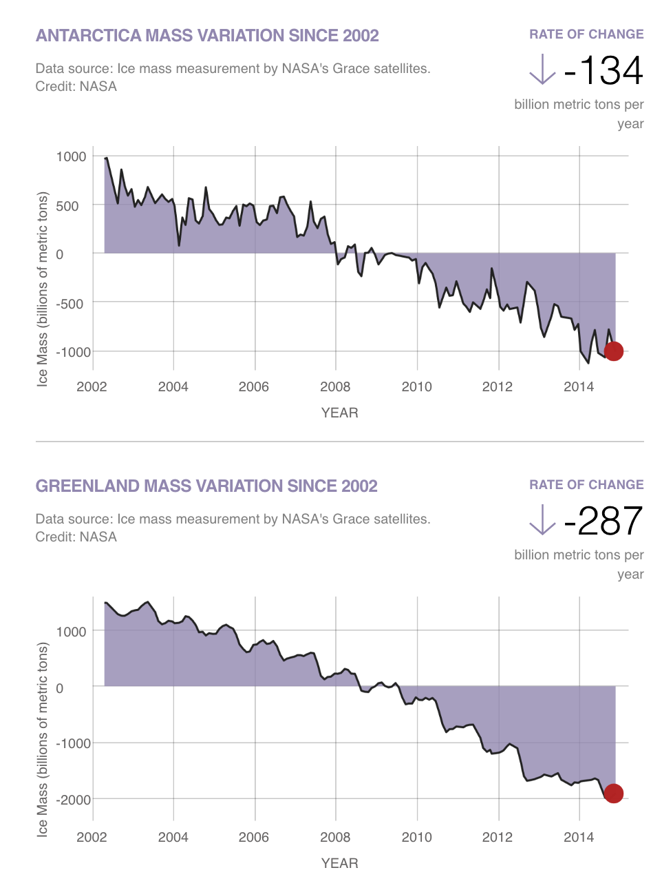 Change in mass of the Greenland and Antarctic ice sheets as measured by the Gravity Recovery and Climate Experiment with respect to their 2003-2014 means. The data come from the the JPL RL05 mascon solution, with GIA corrections from the most recent A et al. and Ivins et al. models. This is a screenshot of two plots posted on the NASA Climate Change website.